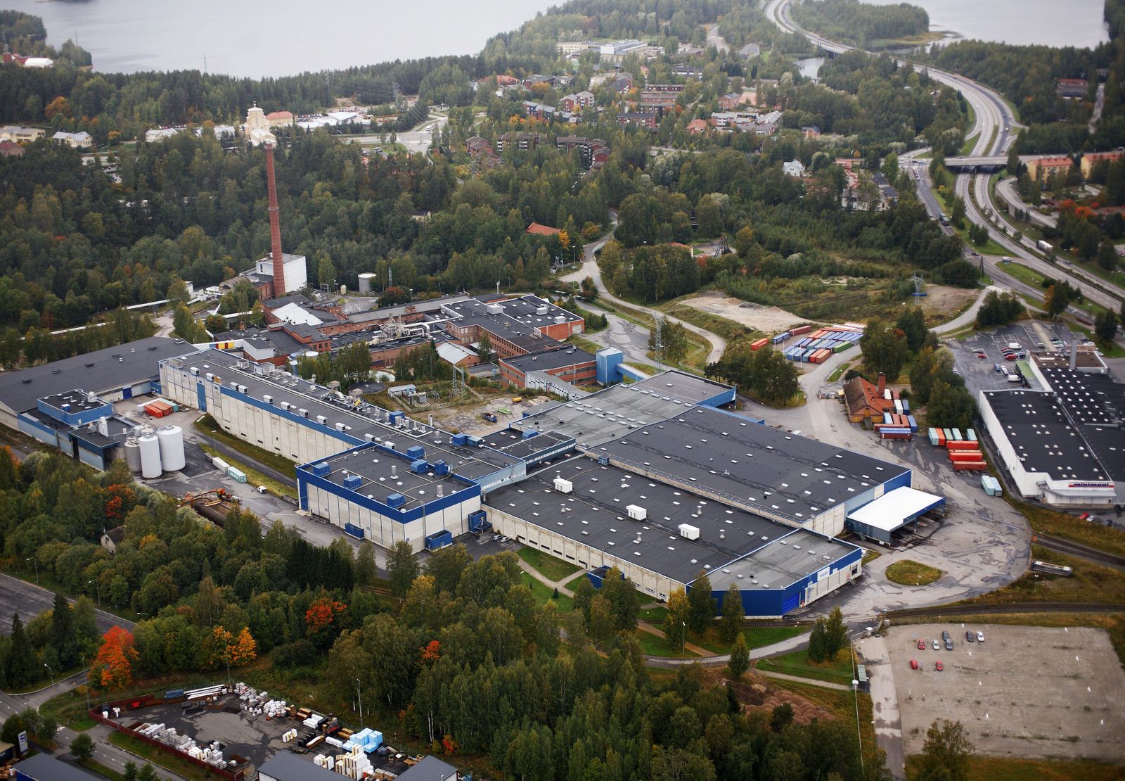 Kangas paper mill in Jyväskylä, Finland from air